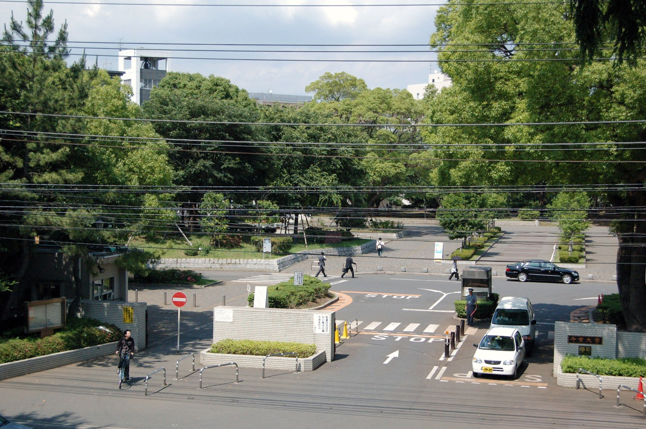 Chiba-University main gate.